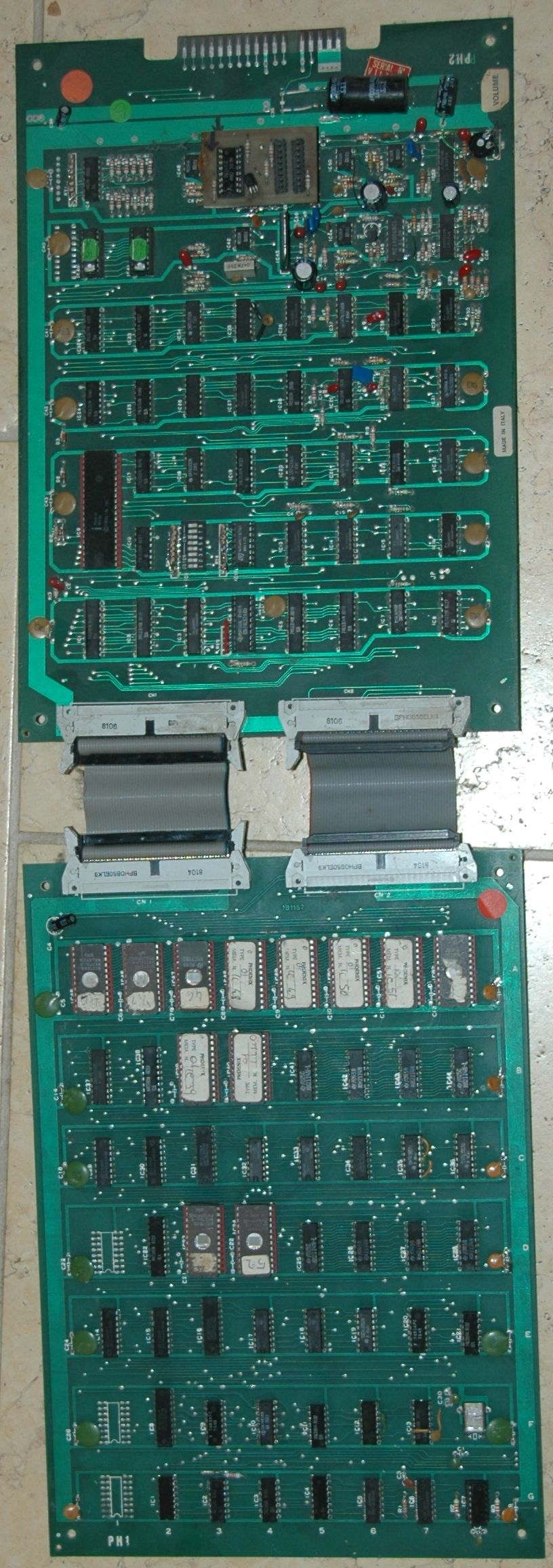 Phoenix main board